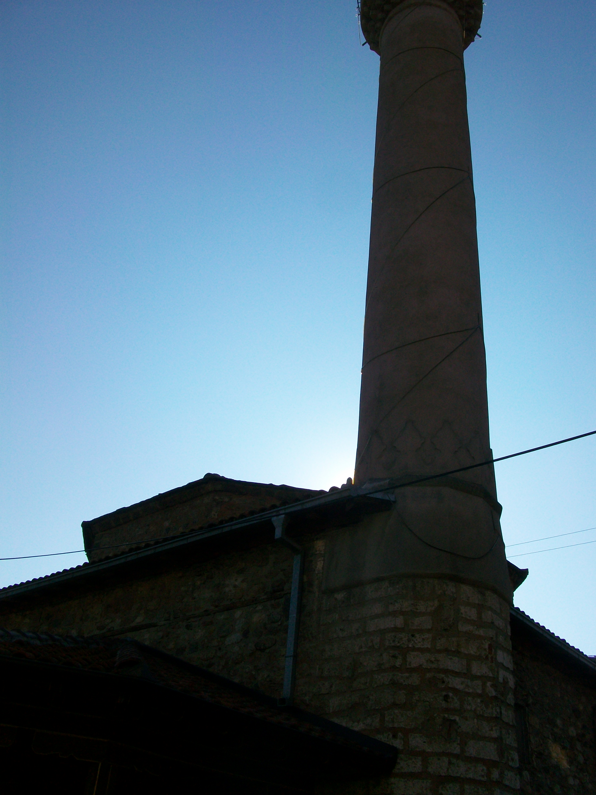 Pictures from Prizren Kosovo